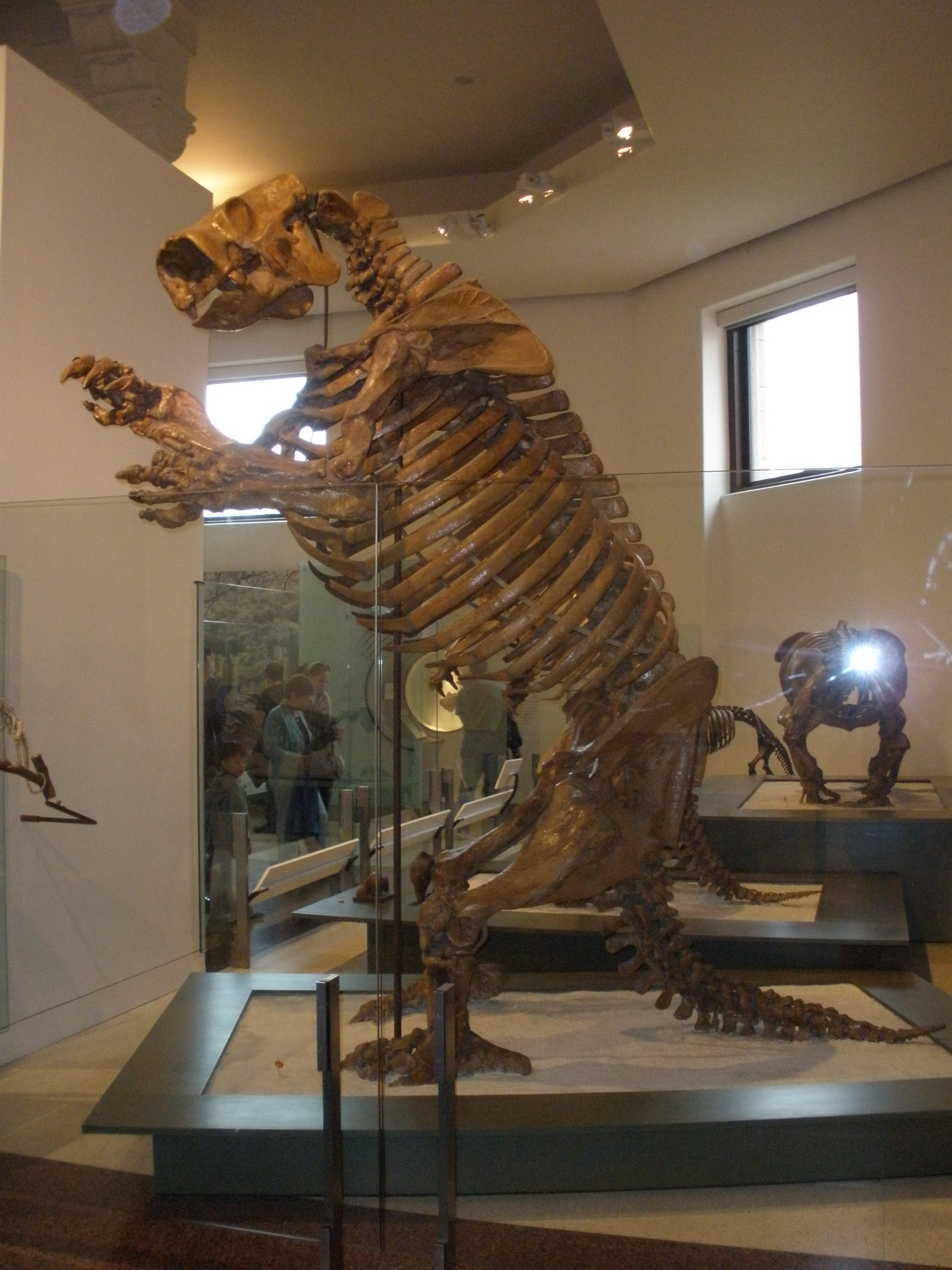 Skeleton of Lestodon armatus, a fossil ground sloth